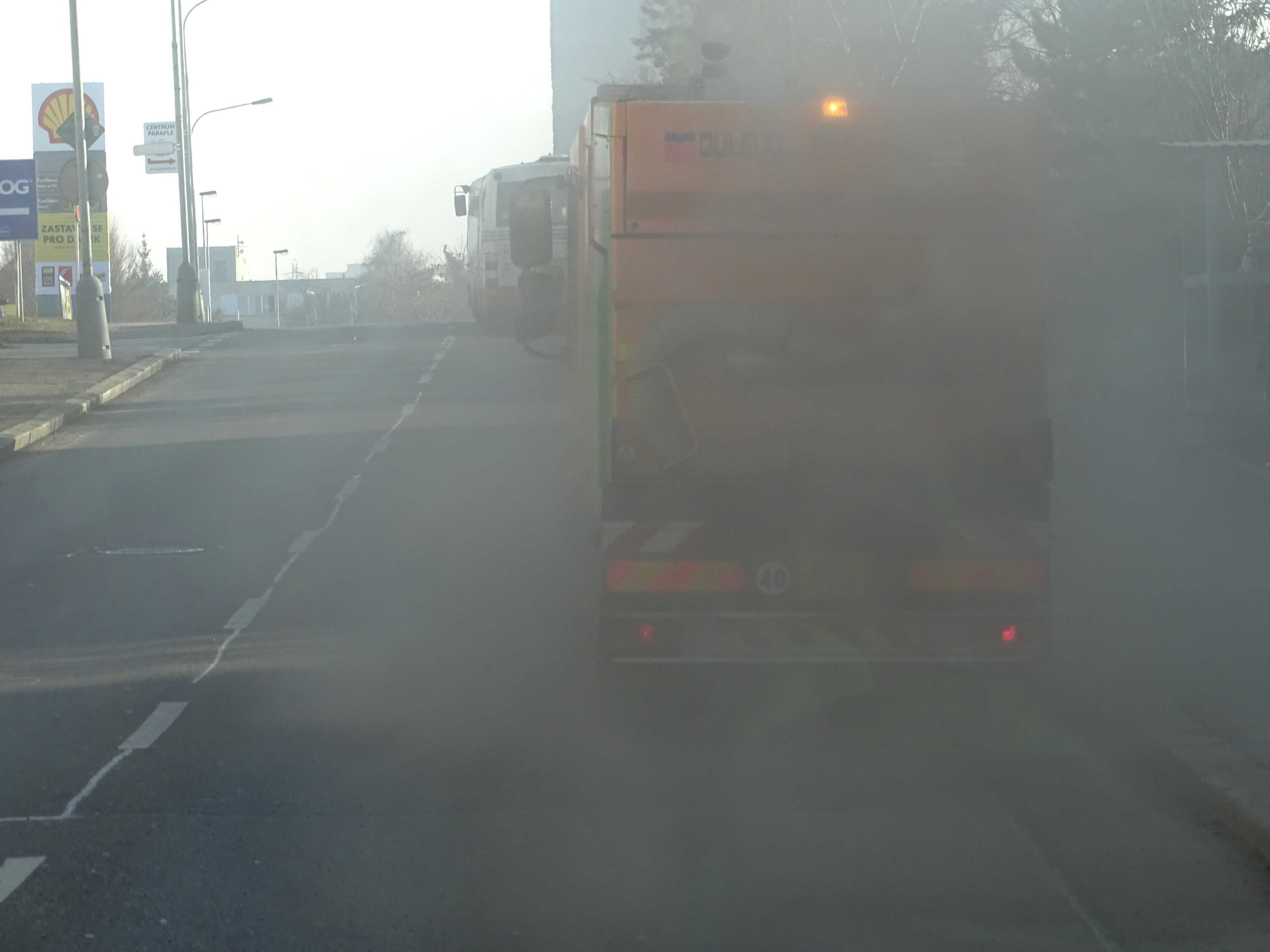 Prague-Malešice, Czechia, Limuzská street, a street sweeper truck of Pražské služby.